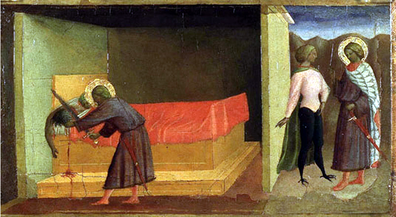 On his return from hunting, betrayed by the devil, Saint Julian believes to find his wife with a lover instead of his visiting parents and beheads them.